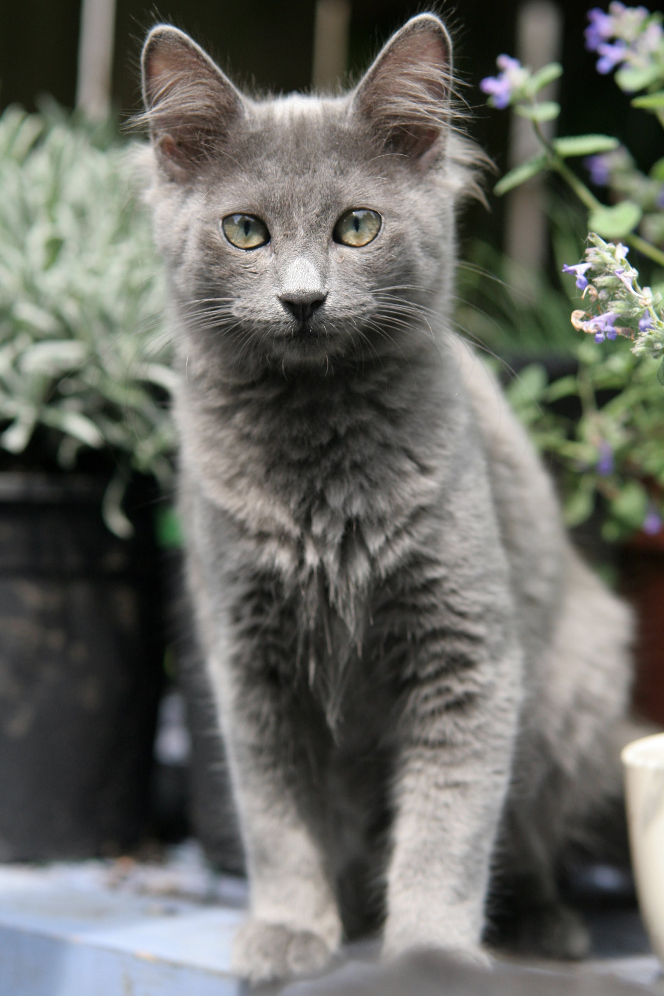 Nebelung